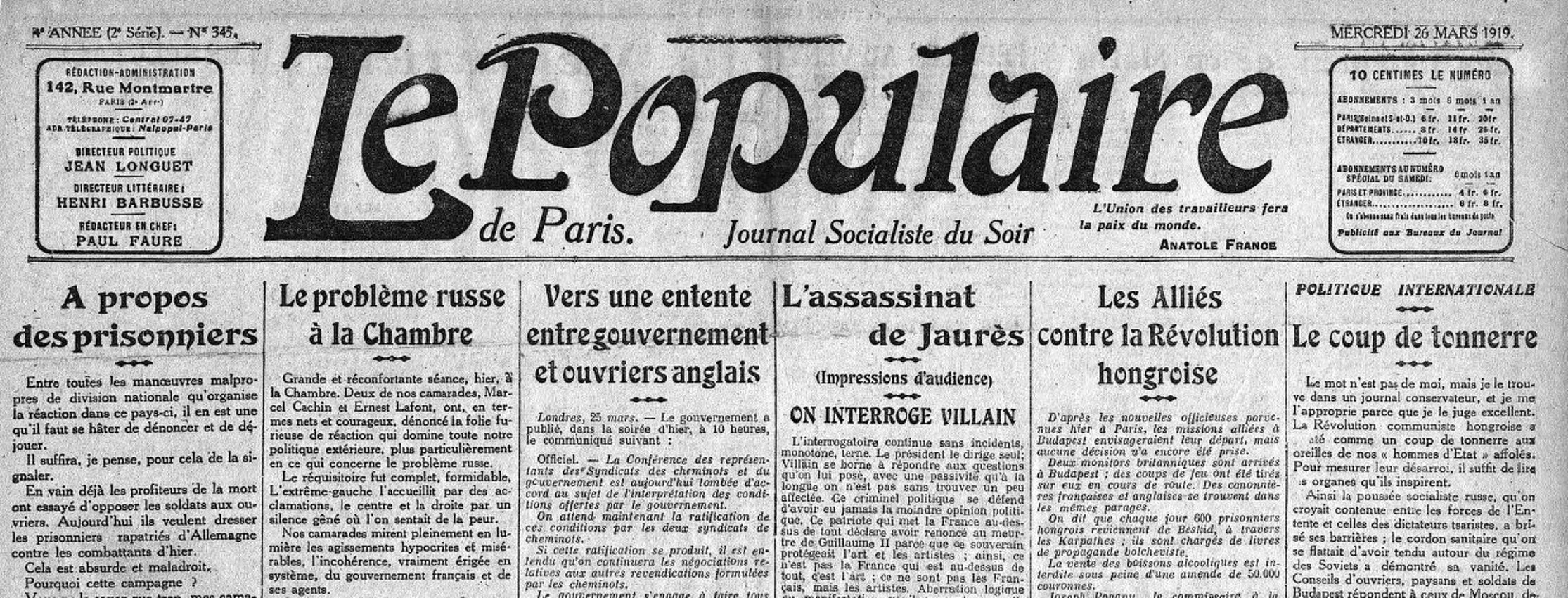 Socialist newspaper (Le Populaire) reporting of debates in the National Assembly of the French intervention in the Black Sea. March 26, 1919 (second column).